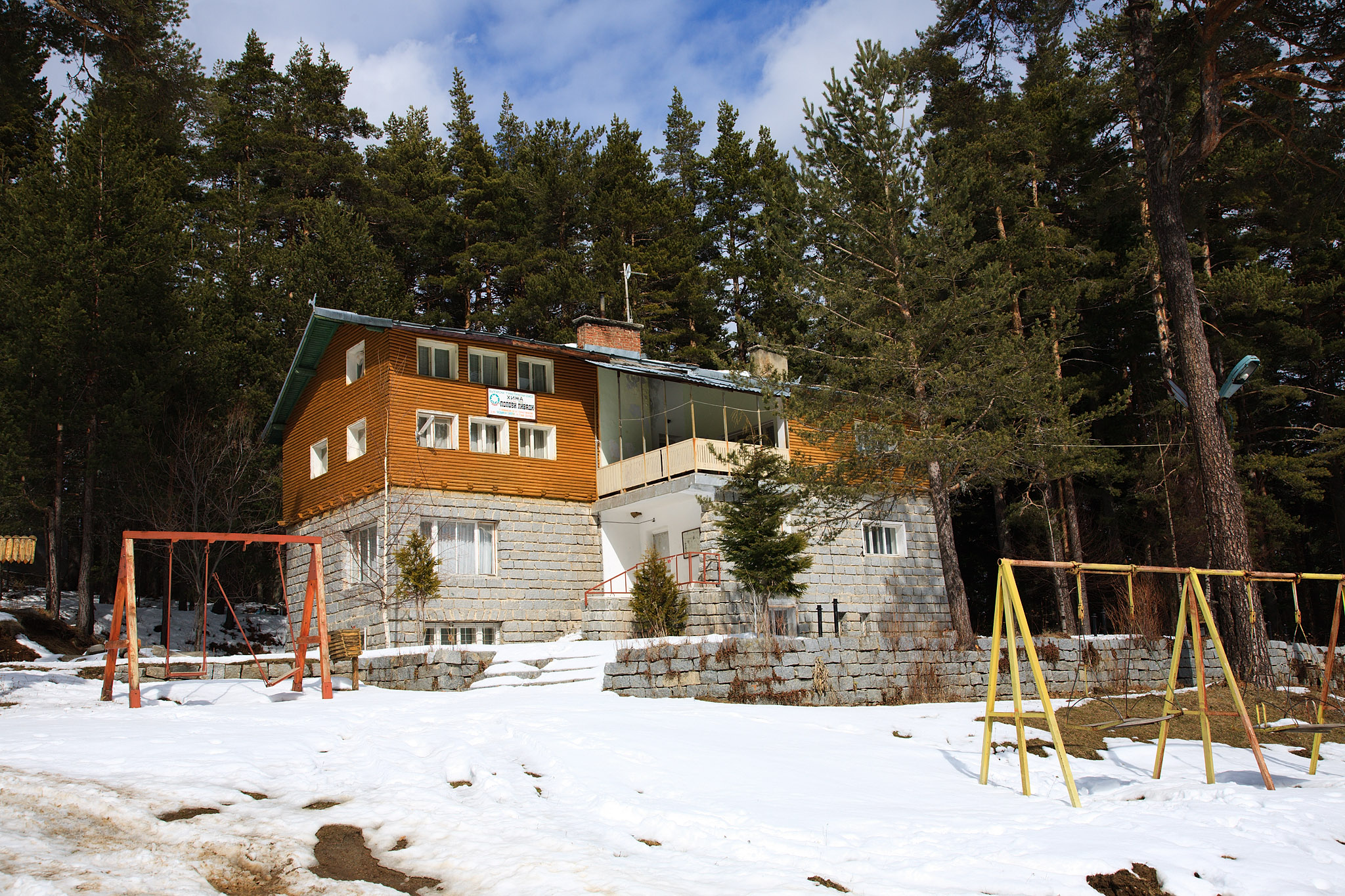 Popovi livadi refuge in Pirin mountain, Bulgaria